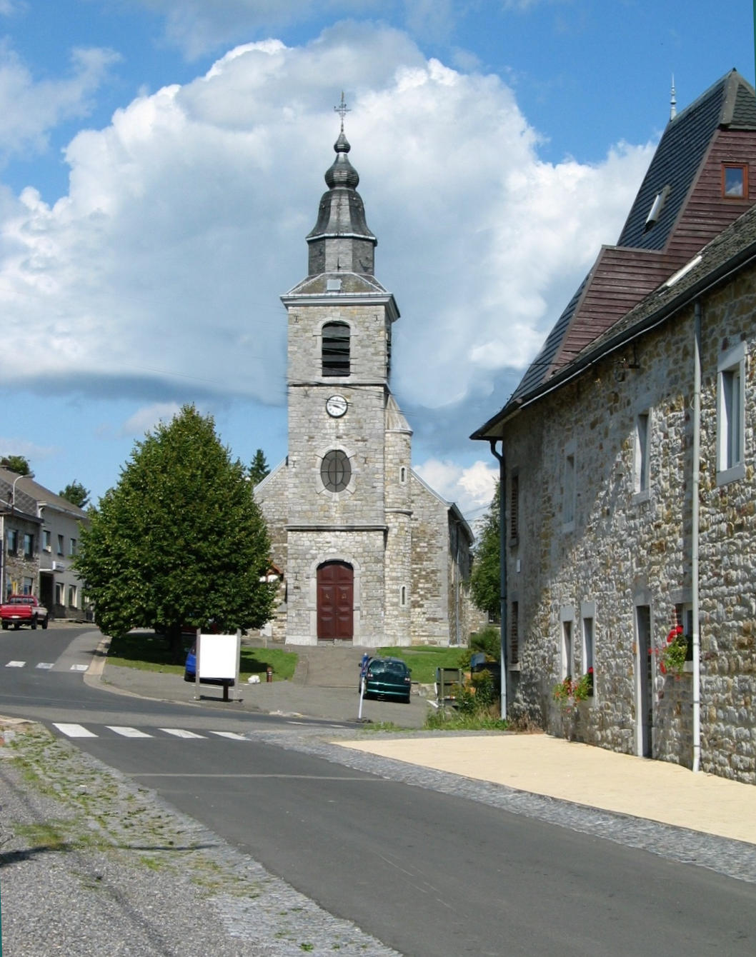 Church Baelen-Membach, build in 1722, Belgium